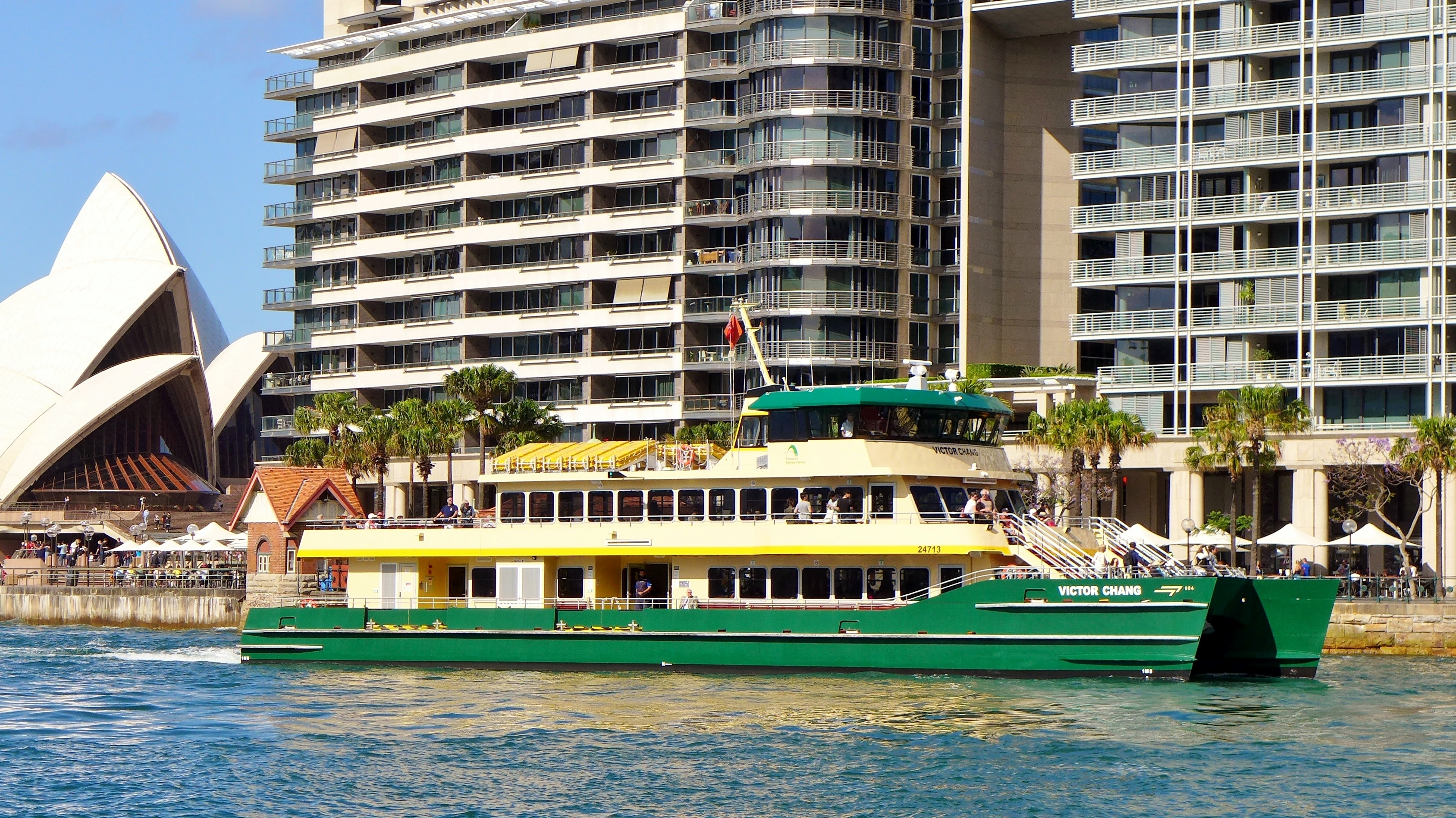 Sydney Ferries' Emerald-class ferry Victor Chang arriving at Circular Quay, Sydney